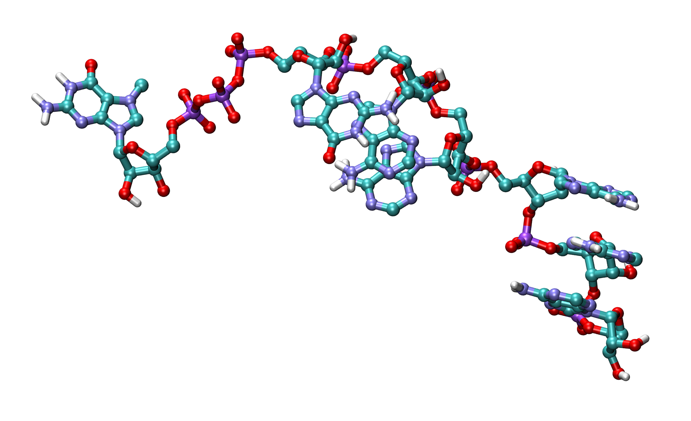 3d ball and stick model of a six base mRNA with m7cap after PDB 1AV6. Ref.: Hodel AE, Gershon PD, Quiocho FA (February 1998). "Structural basis for sequence-nonspecific recognition of 5'-capped mRNA by a cap-modifying enzyme". Mol. Cell 1 (3): 443–7. PMID 9660928.